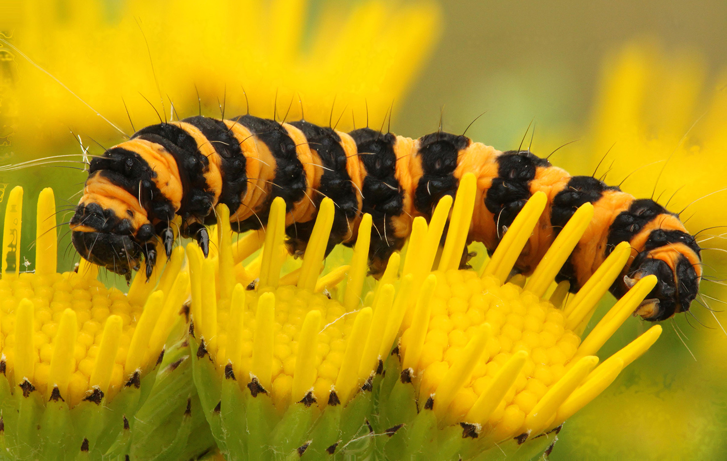 Tyria jacobaeae, Cinnabar, Newborough Warren, North Wales, July 2012